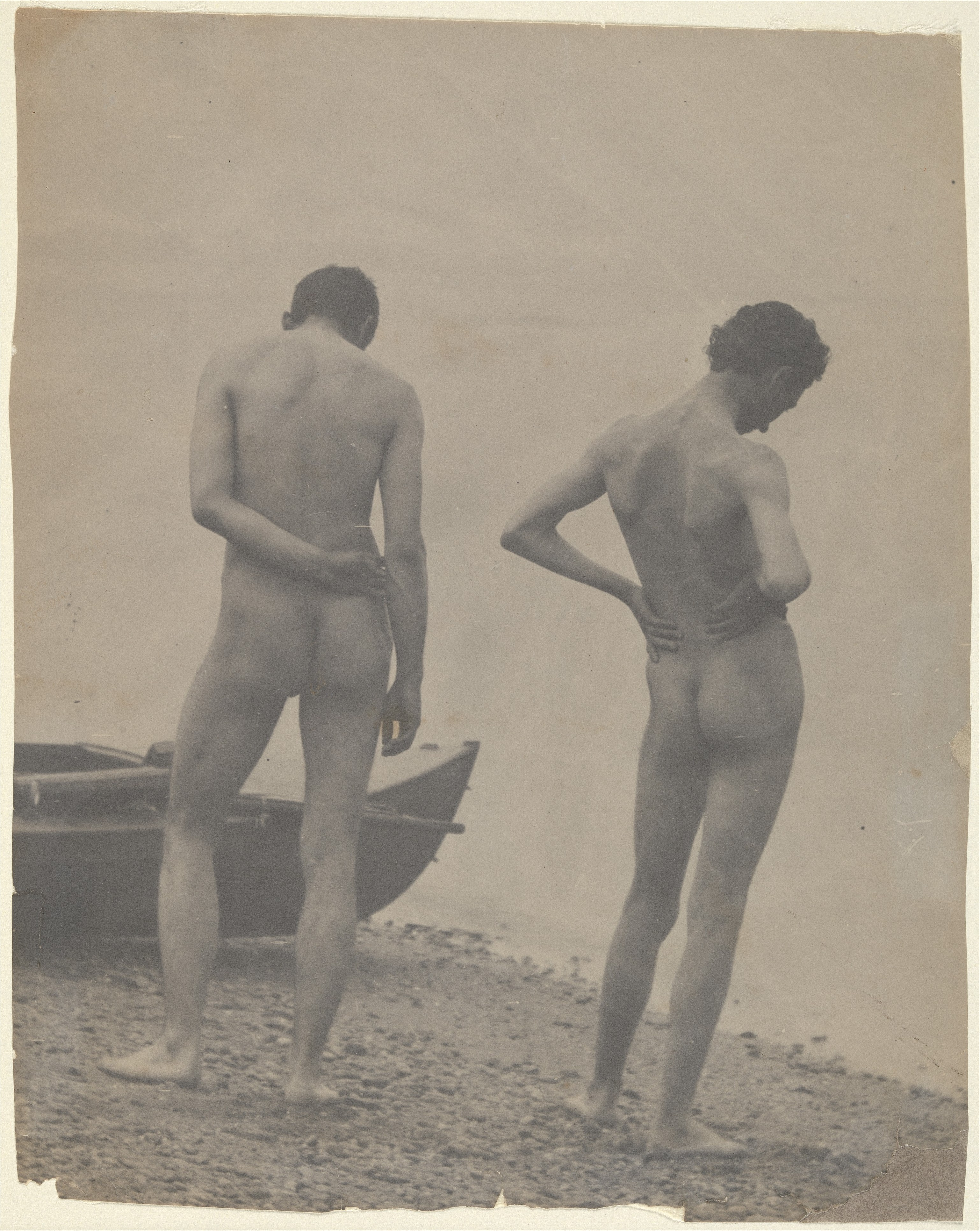 Photograph of Thomas Eakins with John Laurie Wallace. The figure of Wallace was later used as a reference for the prominent figure in Thomas Eakin's "The Swimming Hole" c. 1884-1885. From the Met Museum's catalogue: "This photograph was probably made during the summer of 1883 at Manasqua Inlet at Point Pleasant, New Jersey. Affecting the elegant contrapposto stances of classical sculpture, Eakins poses with his student J. Laurie Wallace."